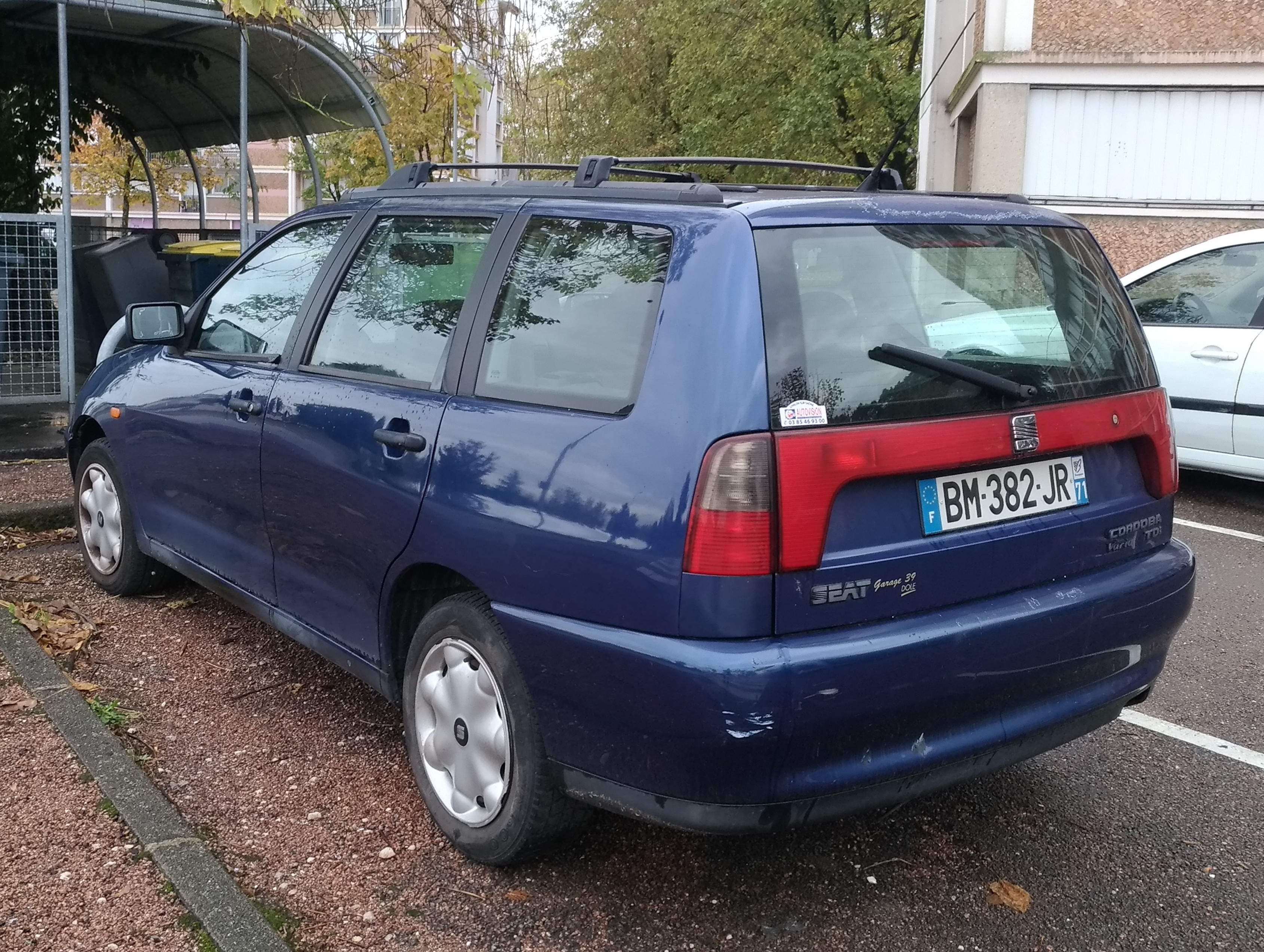 Seat Cordoba Break